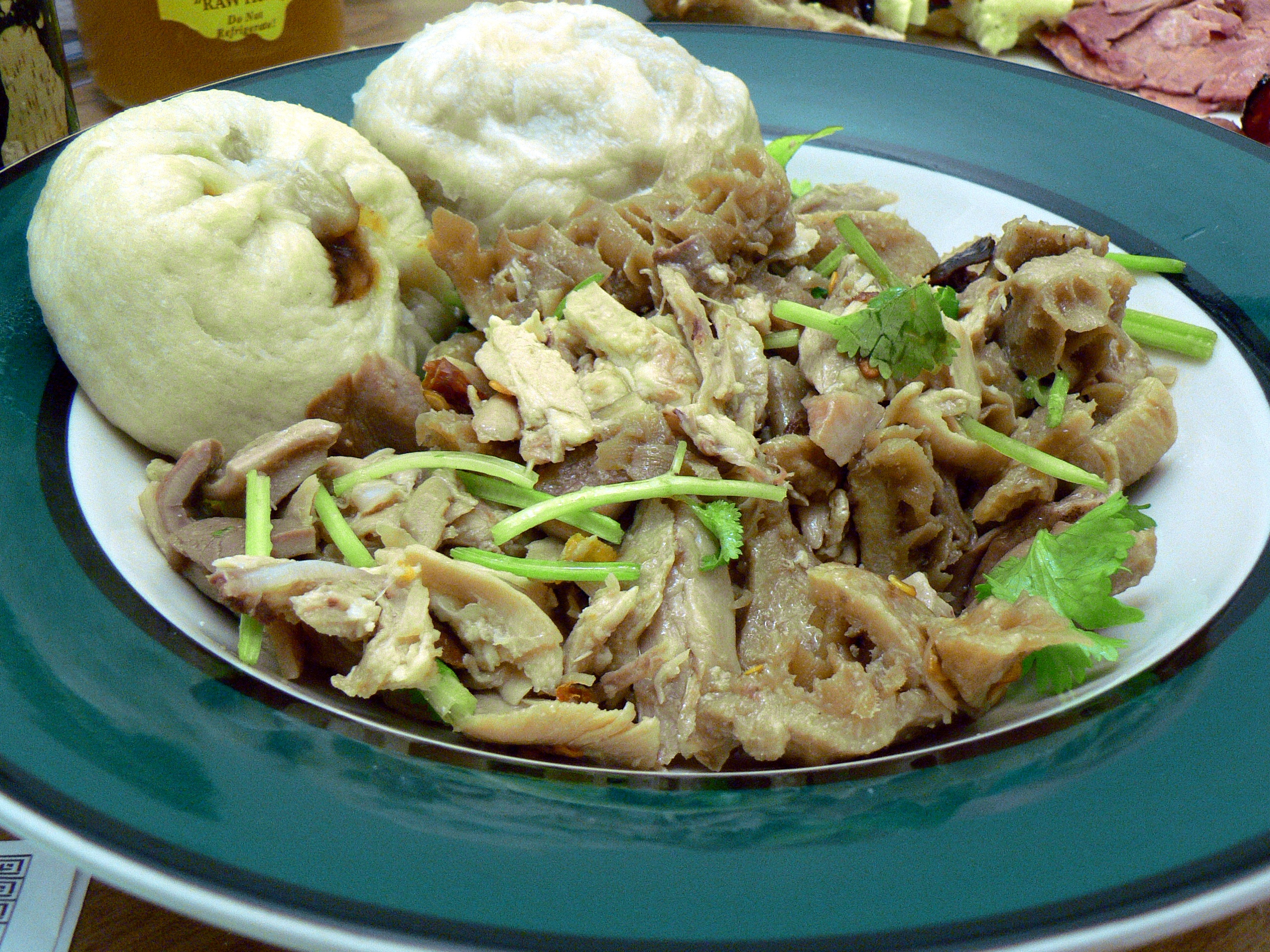 Chinese preparation of hog maw, served with one pork and one beef dumpling